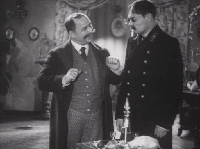 Кадр из фильма Человек в футляре